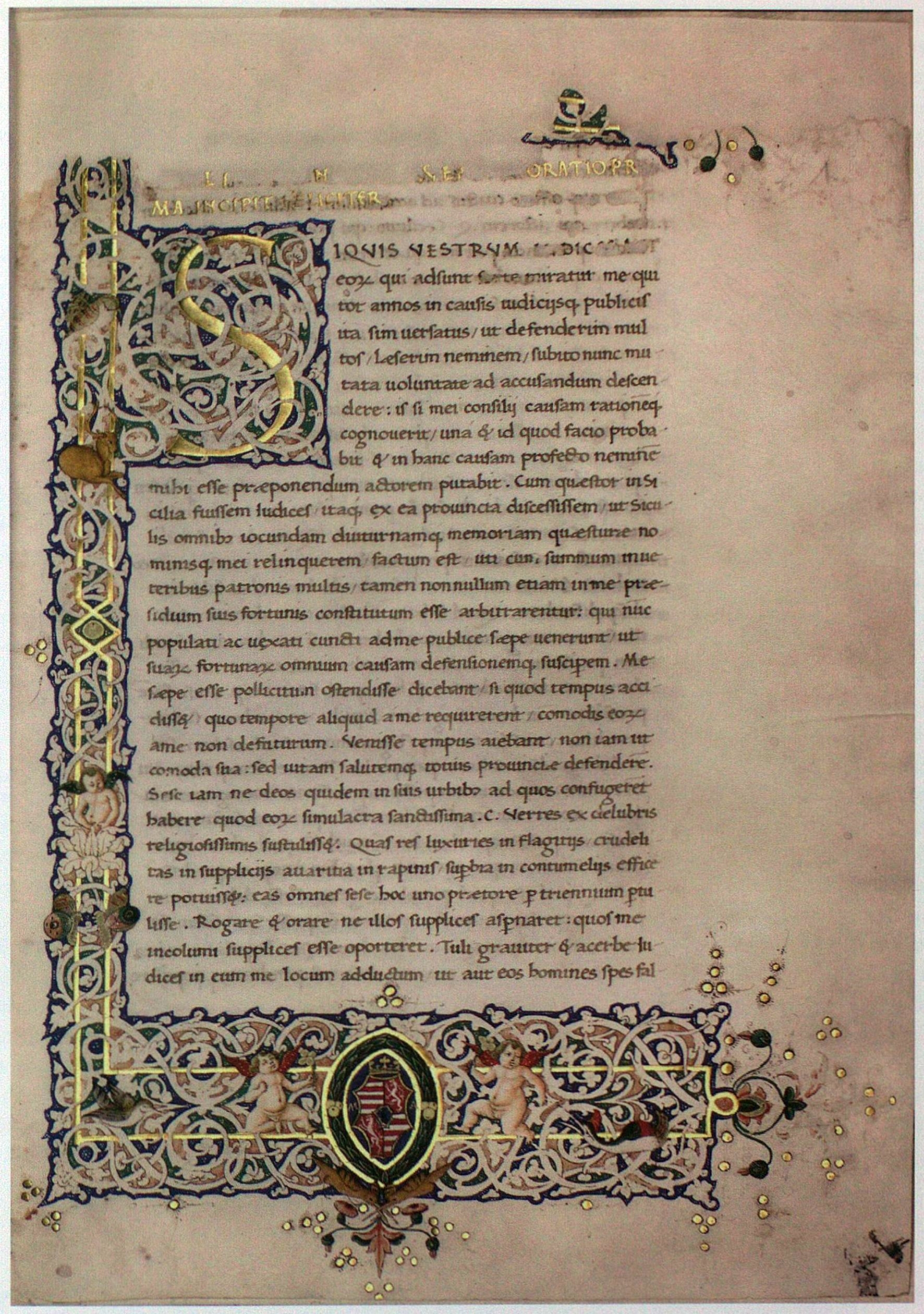 The beginning of the „Divinatio in Caecilium” in the manuscript Budapest, Egyetemi Könyvtár, Cod. Lat. 2.